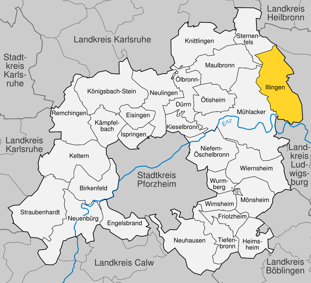 position of Illingen within distict of Enzkreis, Baden-Württemberg, Germany